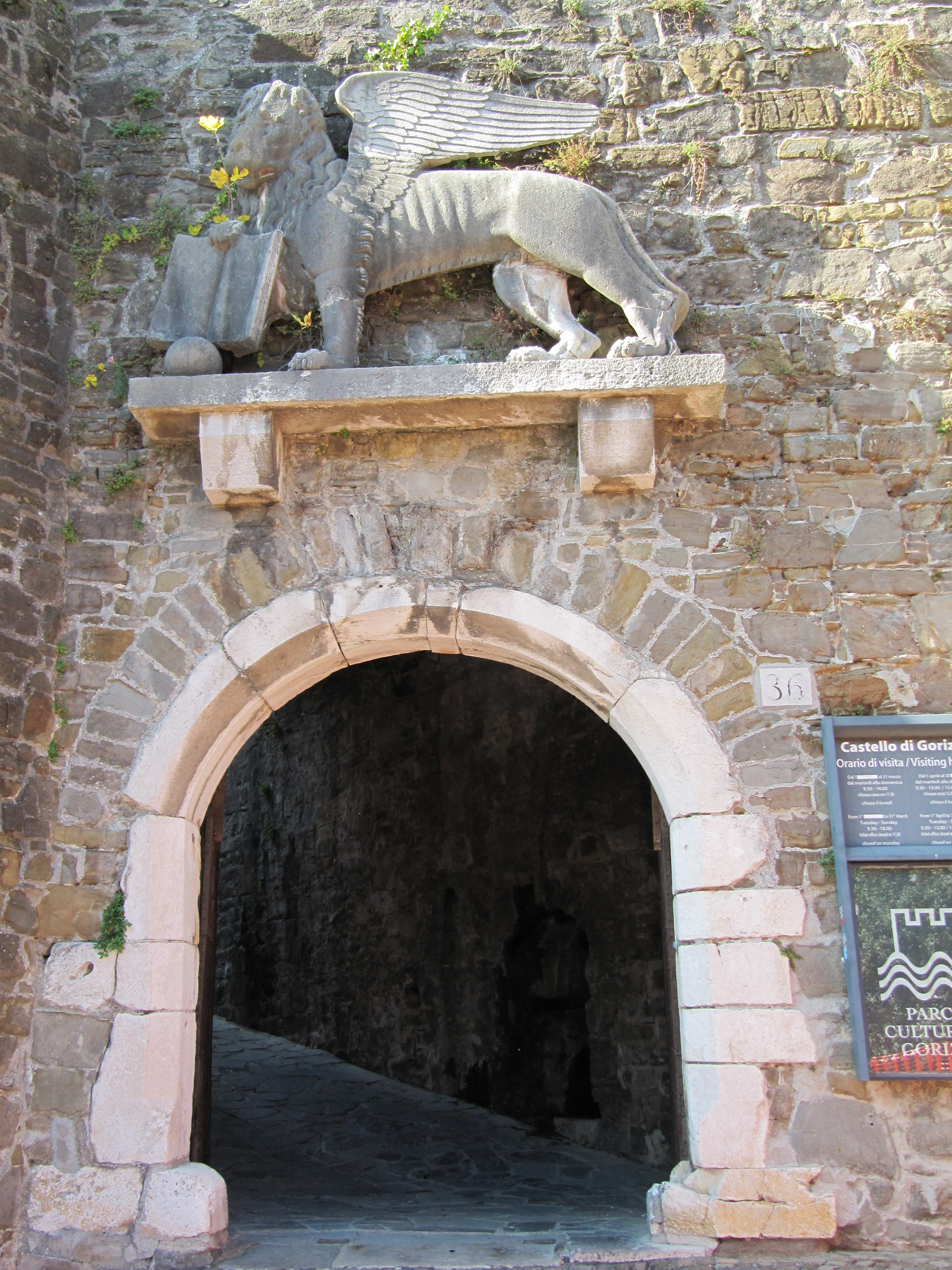 Gateway of castle of Gorizia, Italy. There is a Lion of Saint Mark of Venice.